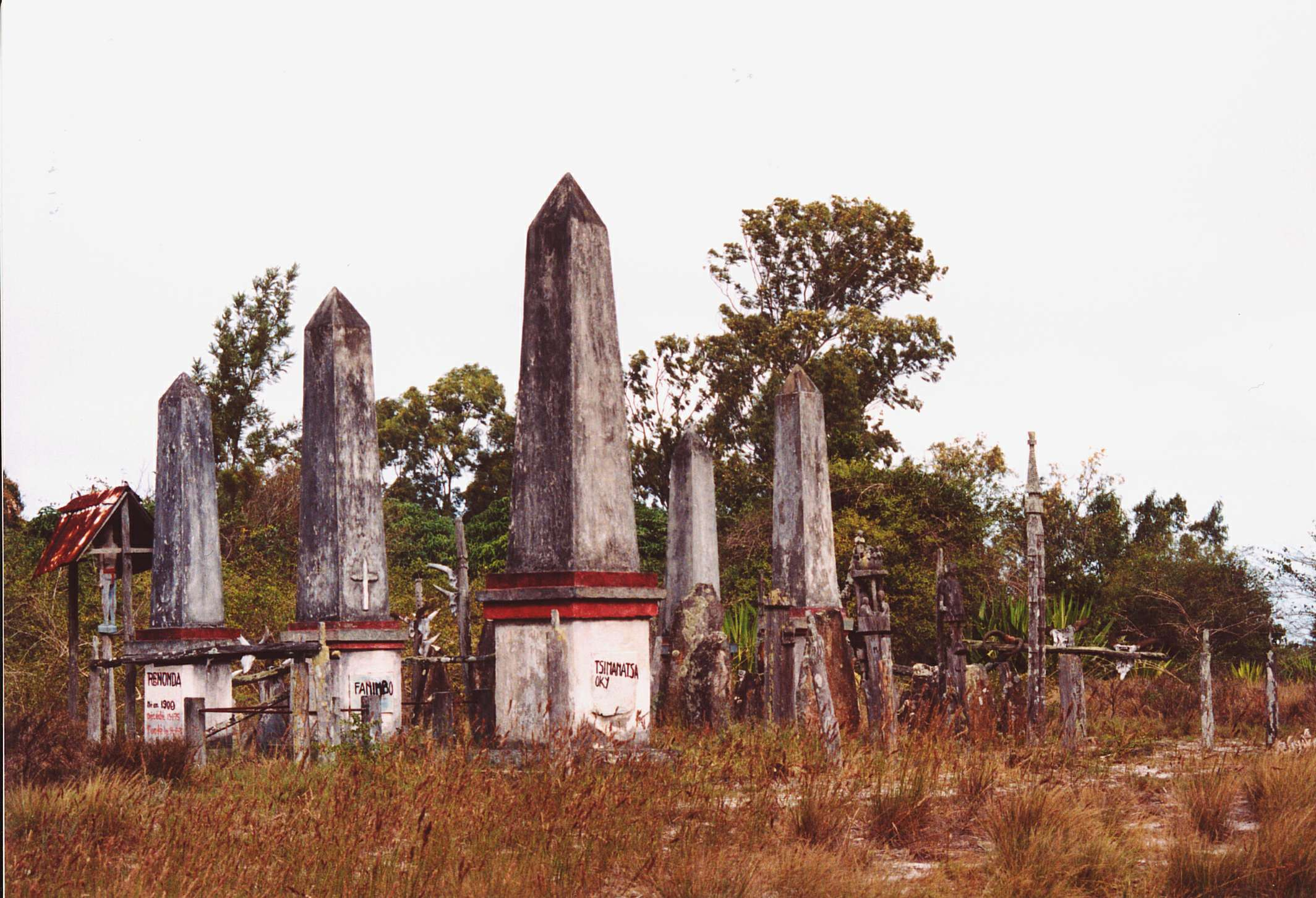 Mahafaly Tomb with Christian Signs in South Madagascar